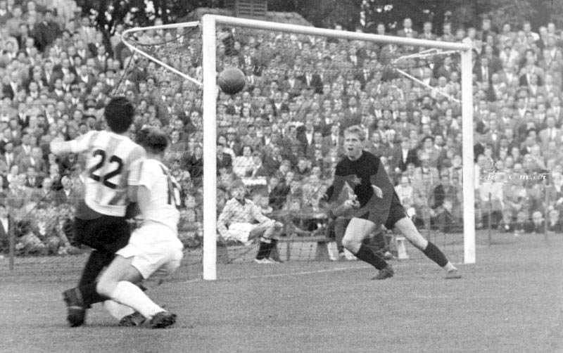 Argentine forward Osvaldo Cruz attemps to shot Czechoslovakia goal defended by goalkeeper Břetislav Dolejší.